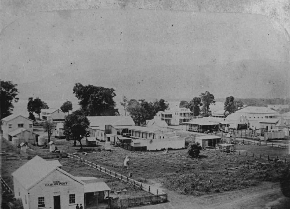 First office of The Cairns Post newspaper, Cairns, 1886 Daily newspaper in Cairns surrounded by timber houses in Queensland style.